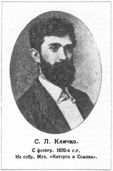 Samuel Lvovitch Klatschko, 1870